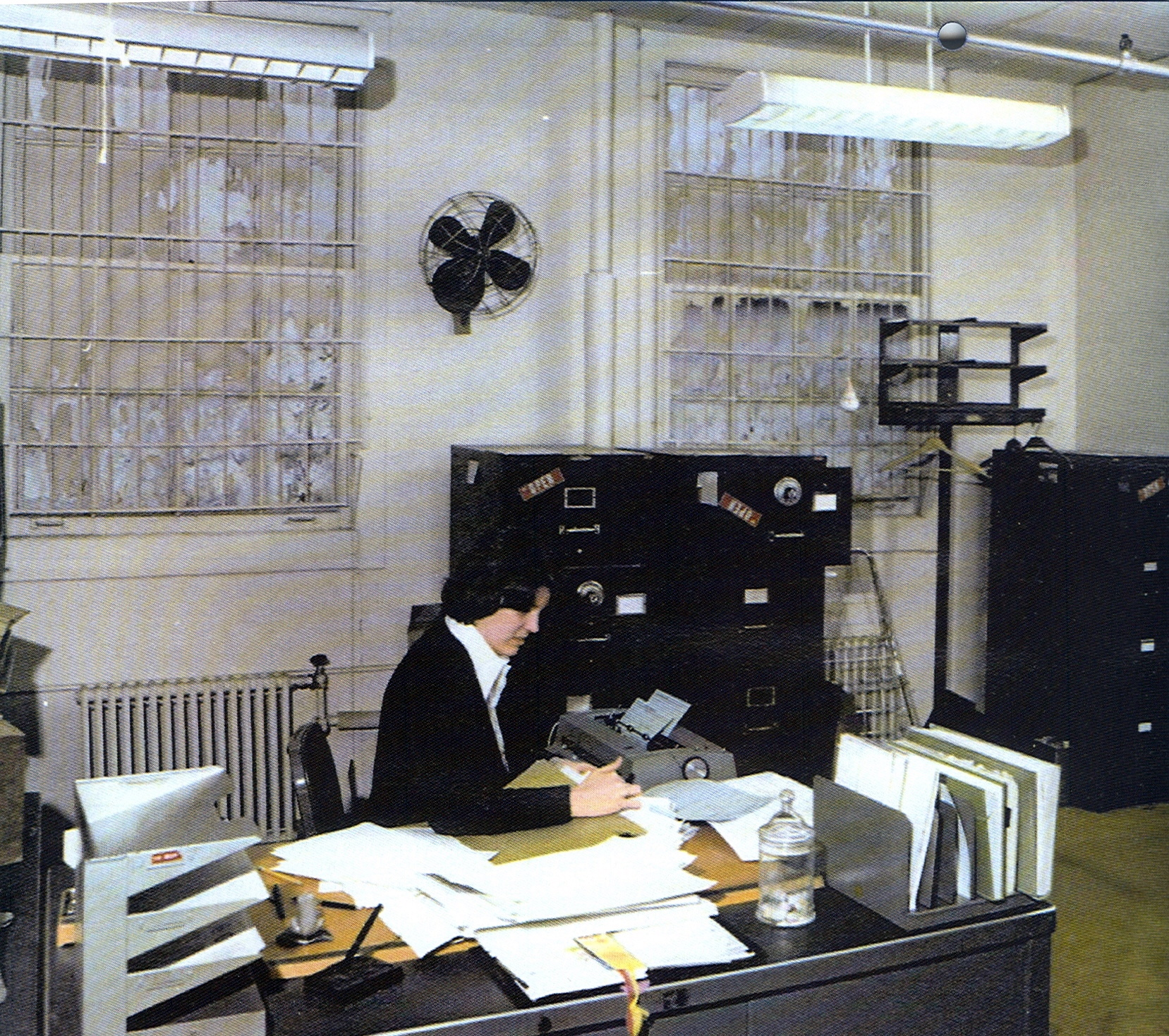 Typical DIA Arlington Hall office circa 1970s.